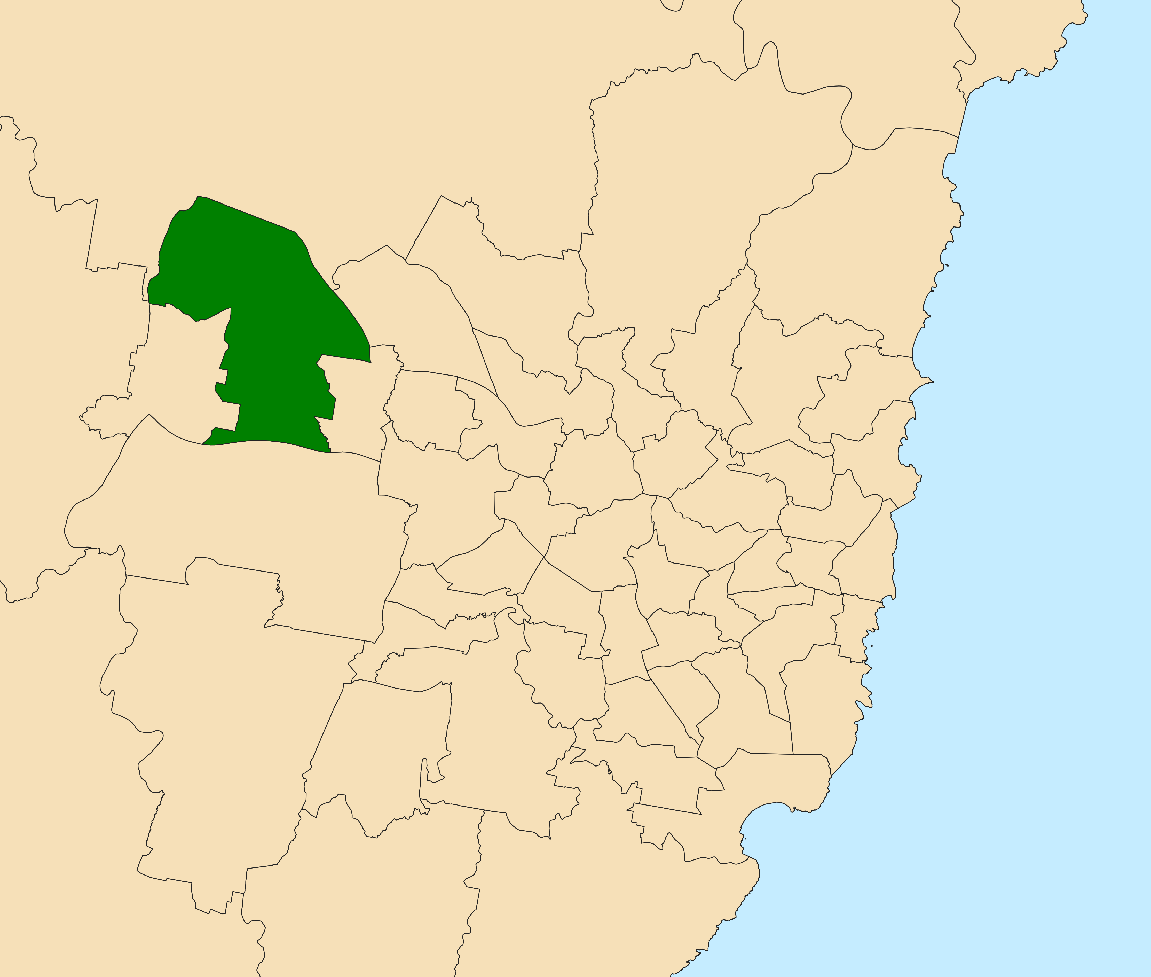 Location of the state electoral district of Londonderry (dark green) in the metropolitan Sydney area as of the 2019 New South Wales state election. Incorporates or developed using Administrative Boundaries ©PSMA Australia Limited licensed by the Commonwealth of Australia under Creative Commons Attribution 4.0 International licence (CC BY 4.0).